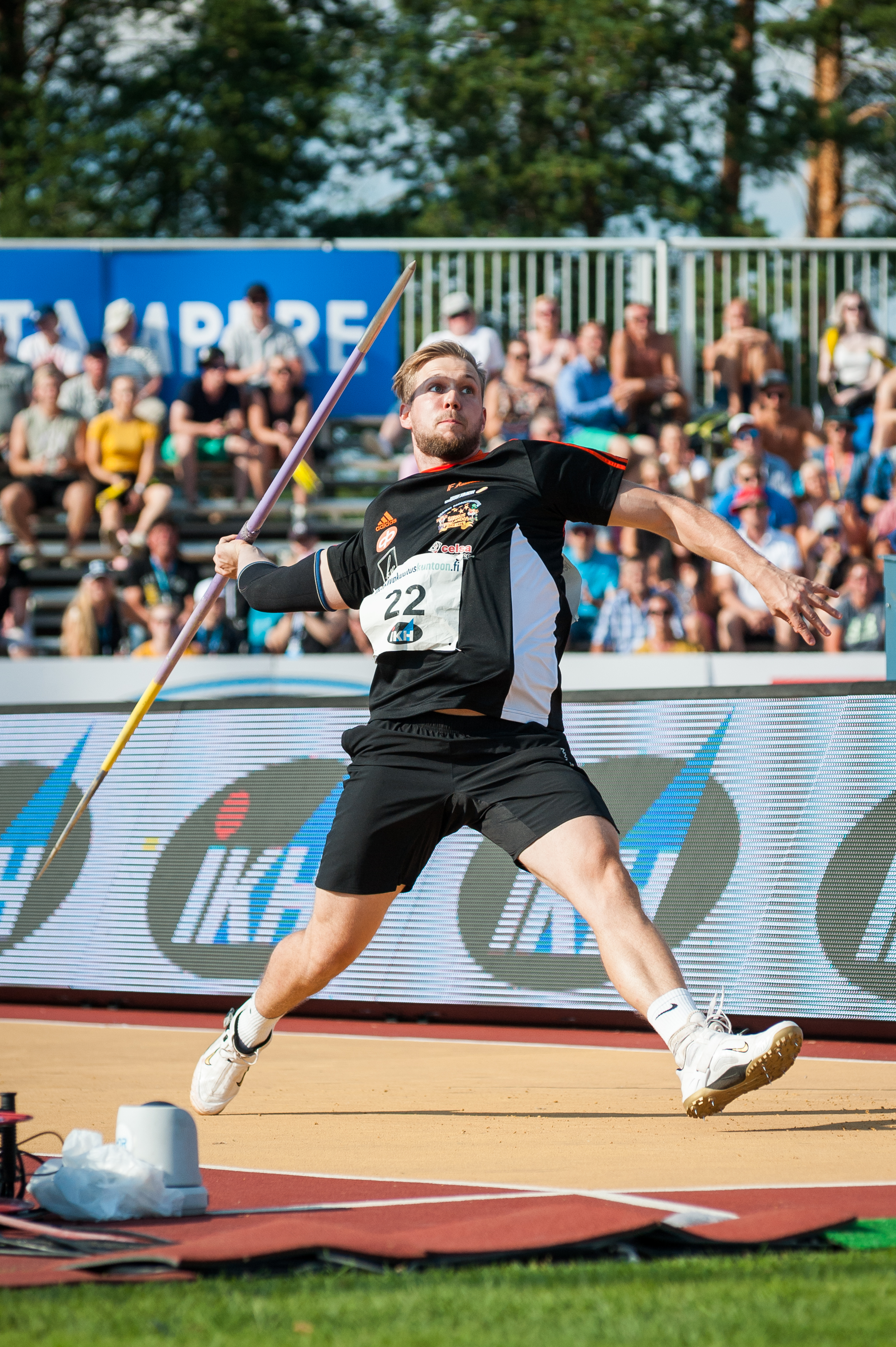 Men's javelin throw competition at the 2018 Kalevan Kisat, the Finnish championships in athletics, in Jyväskylä, Finland.